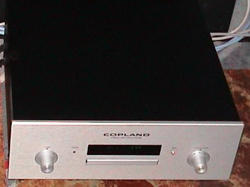 Copland CDA 288 CD player.